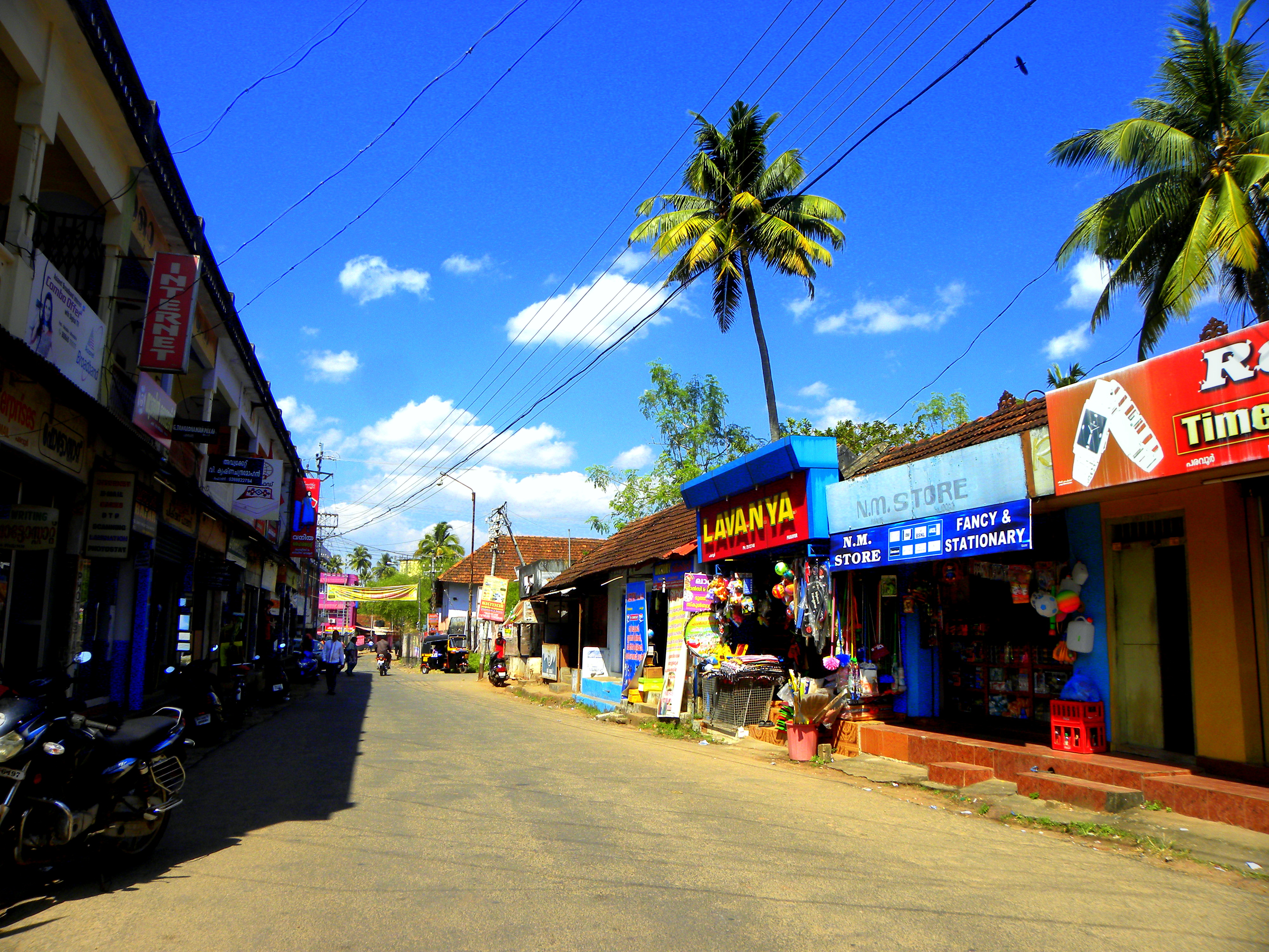 Paravur High Street - The historical Paravur town is having so many number of high streets towards the neighbouring towns and suburbs